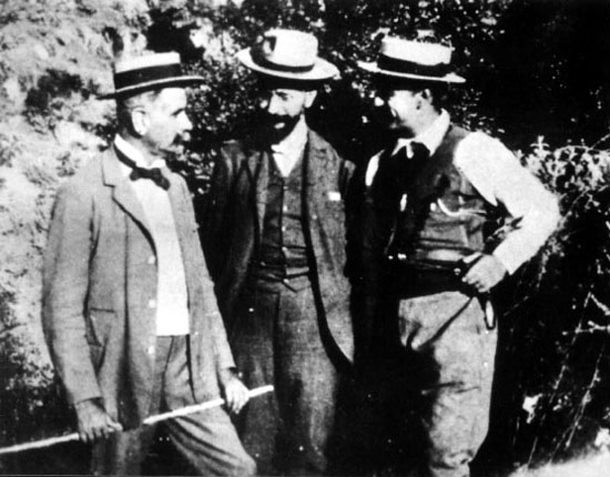 Konstantinos Foumis, Eleftherios Venizelos and Konstantinos Manos in Therissos (Crete)